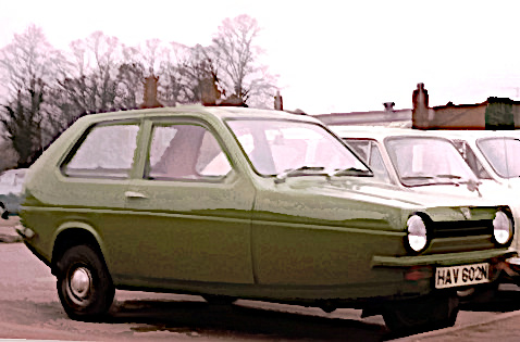 Reliant Robin in Ely